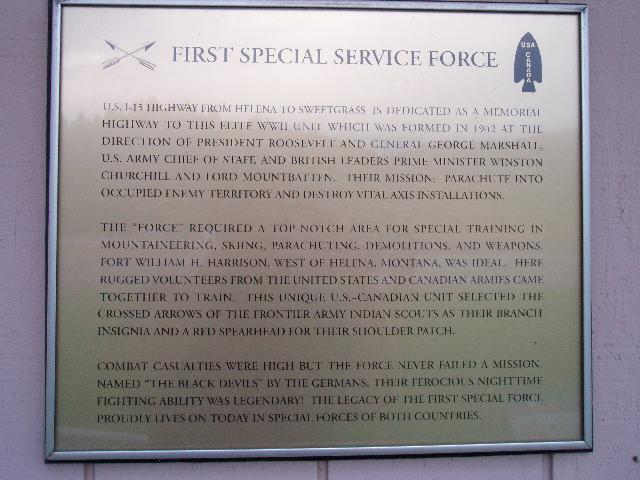 Created by Agent 86 Category:Images of Montana